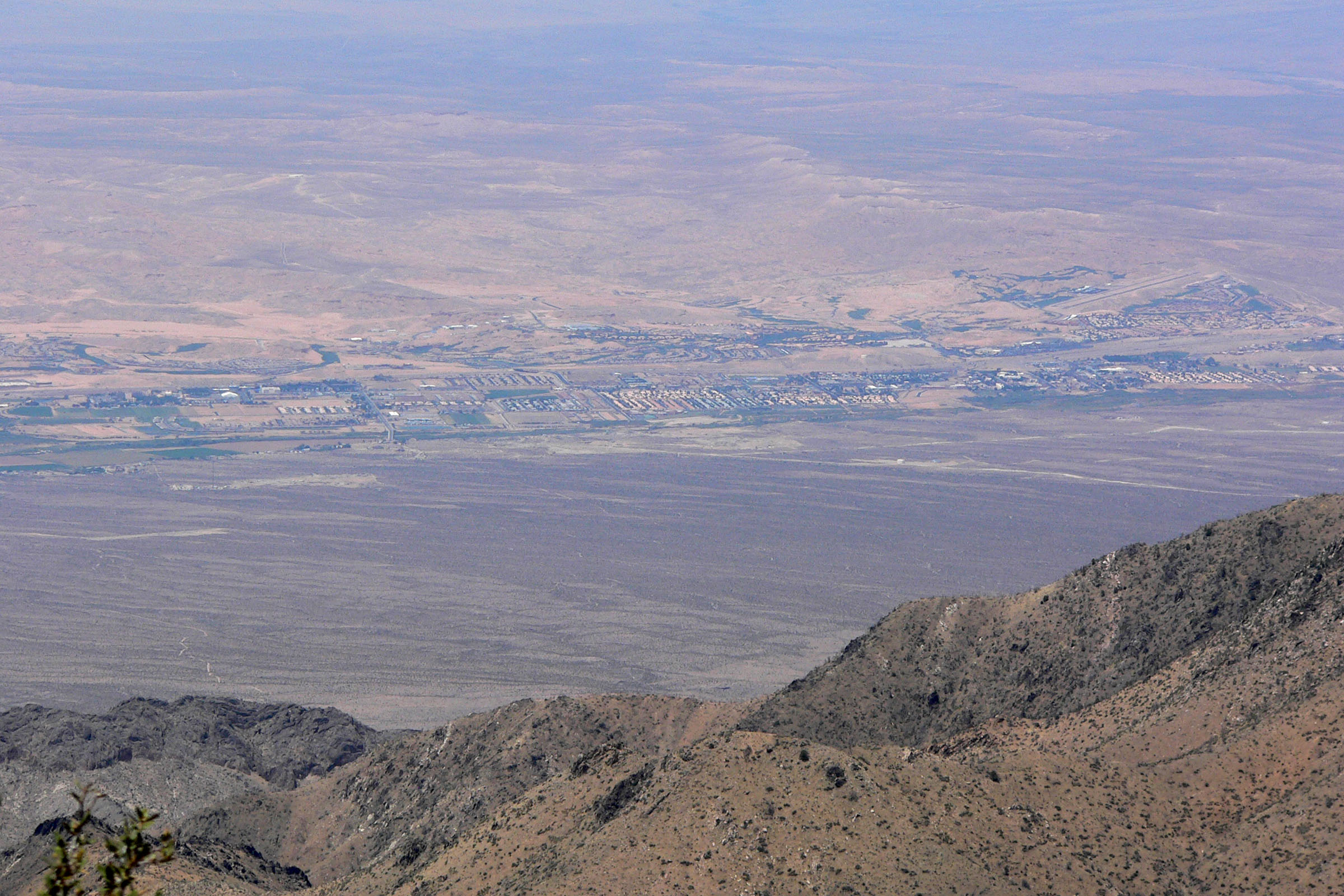 Town of Mesquite in the Virgin Valley — in Clark County, southeastern Nevada. Seen from the summit of Virgin Peak (LVMC outing).